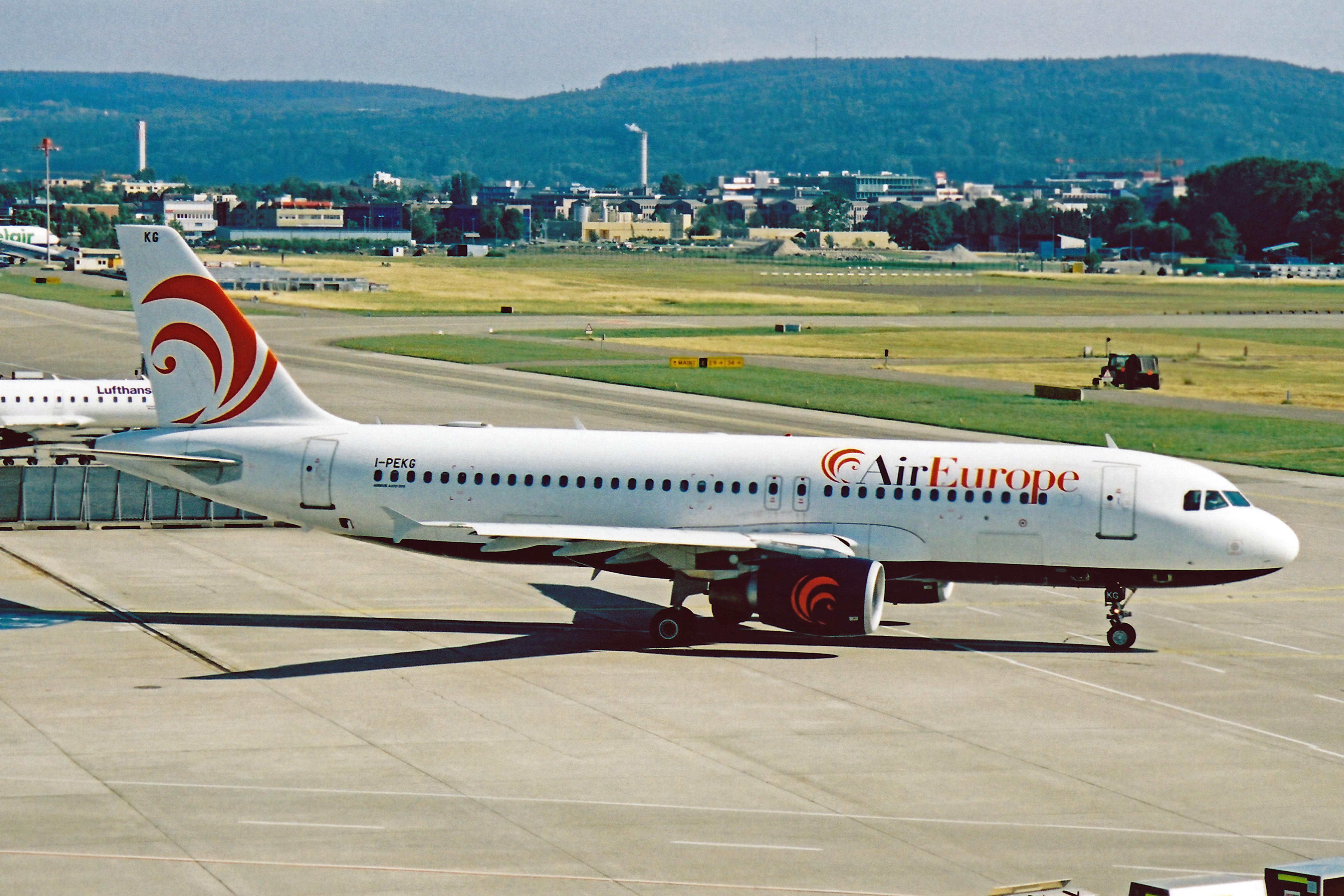 Air Europe Italy was originally part of the Airlines of Europe Group owned by the UK based Intasun/International Leisure Group. It consisted of Air Europe (UK), Air Europa (Spain) and Air Europe (Italy) and all three shared the original Air Europe UK c/scheme. The International Leisure Group spectacularly went bust in Mar-91 and both the Spanish and Italian companies became locally owned. Air Europe Italy was bought by the Volare Group SpA and operated until they failed in Dec-04 when the Italian Government sold the company to the Alitalia Group. However, Alitalia had their own financial problems and Air Europe was finally closed down in Dec-08. I-PEKG was delivered new to Air Europe Italy in Dec-99 and operated until the Volare Group failed in Dec-04. It was impounded at Venice and eventually repossessed by the lessor. It's currently in service (Mar-13) with InterJet in Mexico as XA-IJT.